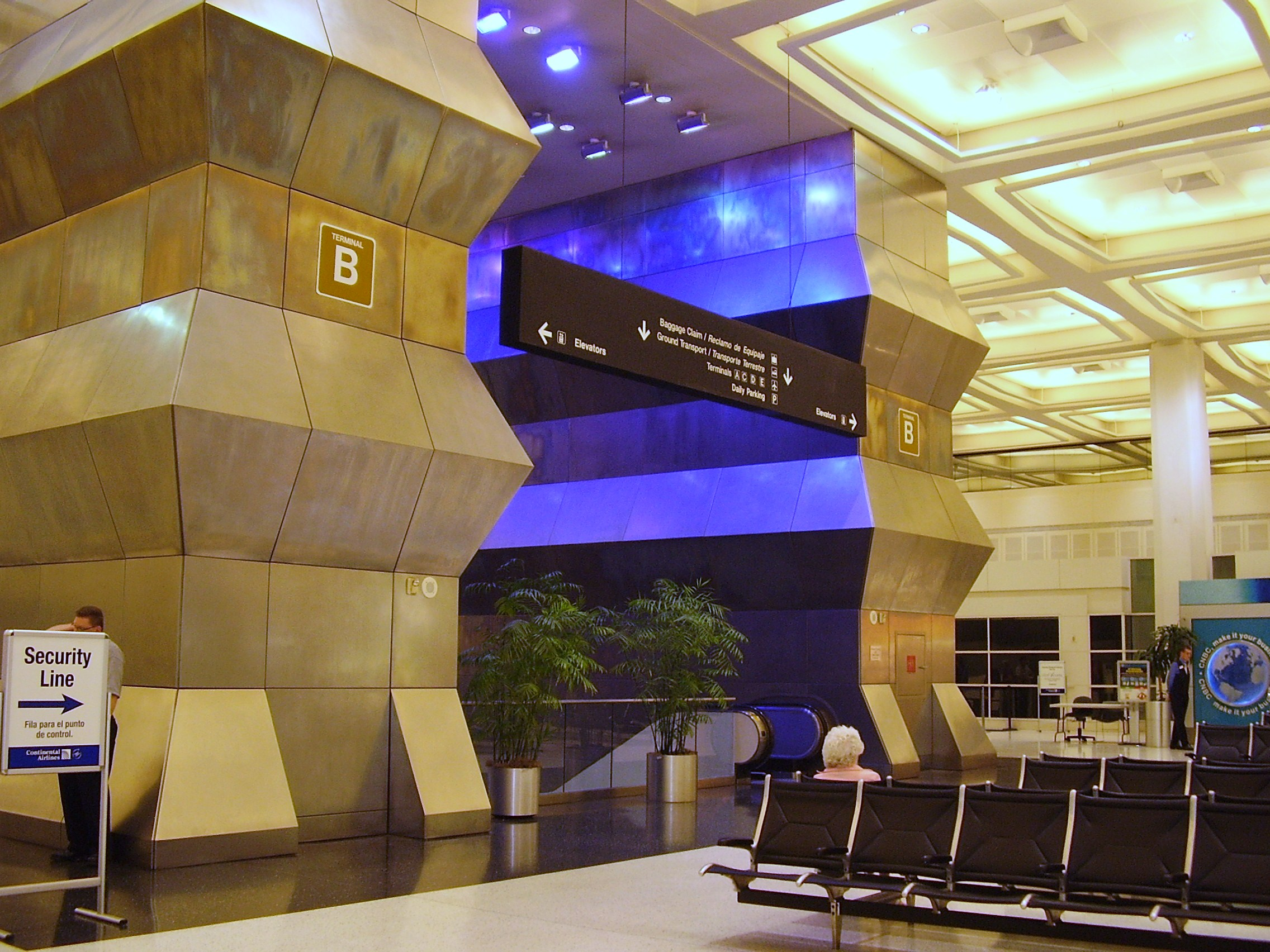 George Bush Intercontinental Airport Terminal B